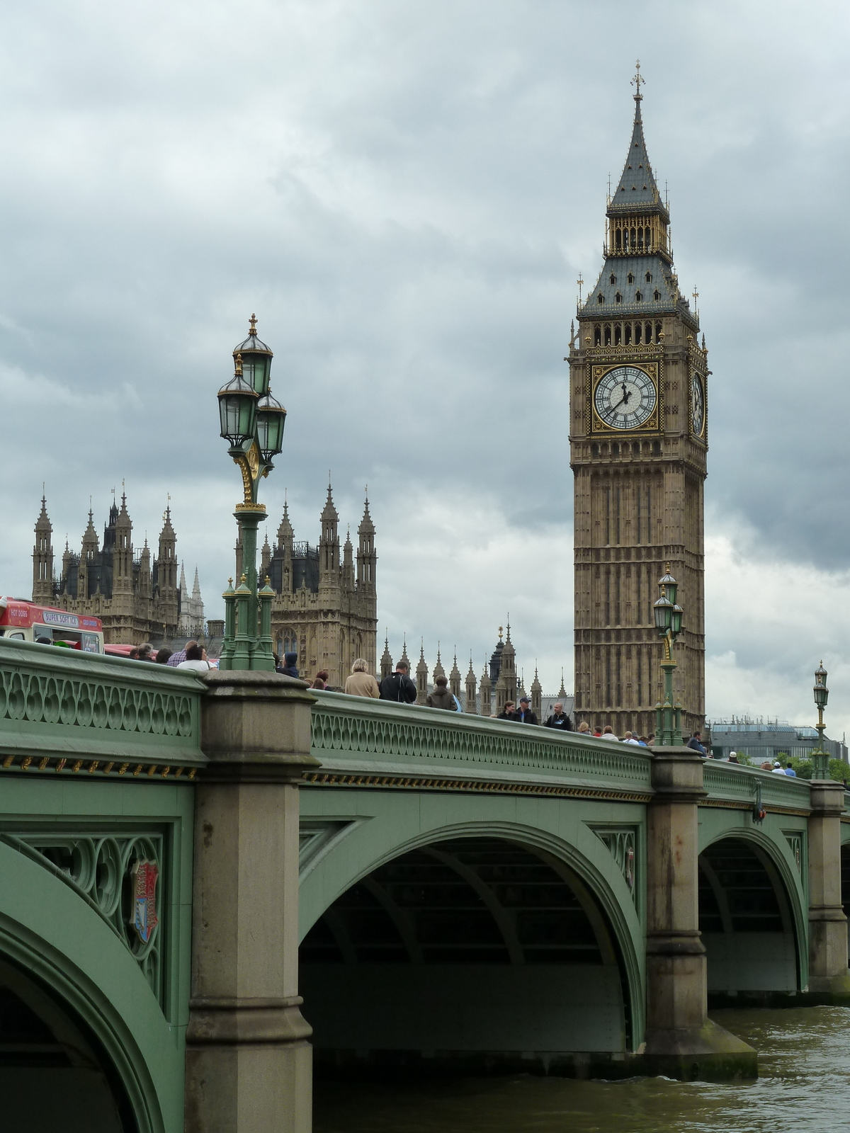 Lambeth, London, UK